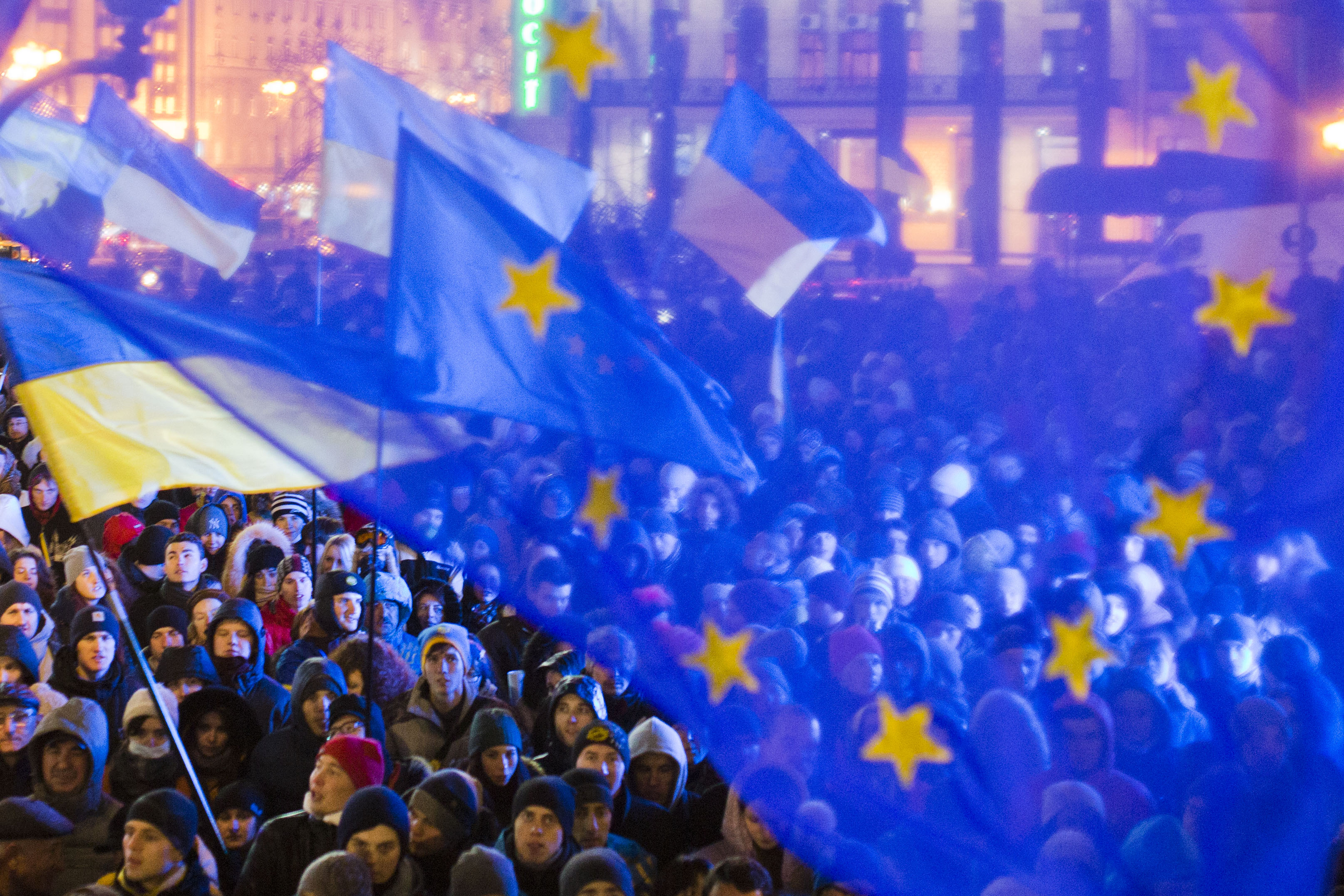 Euromaidan in Kiev.